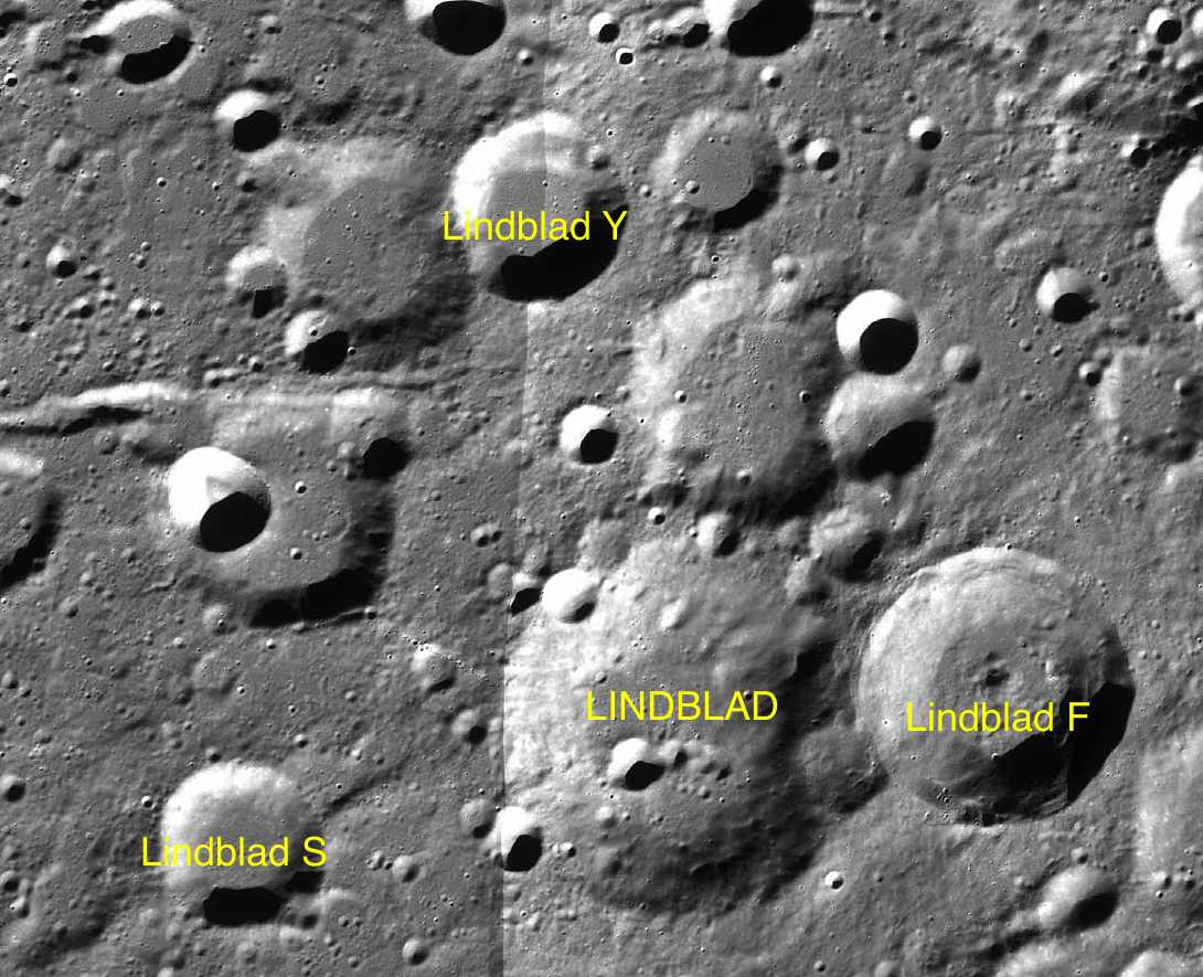 Part of the chart LAC-9 used for the presentation